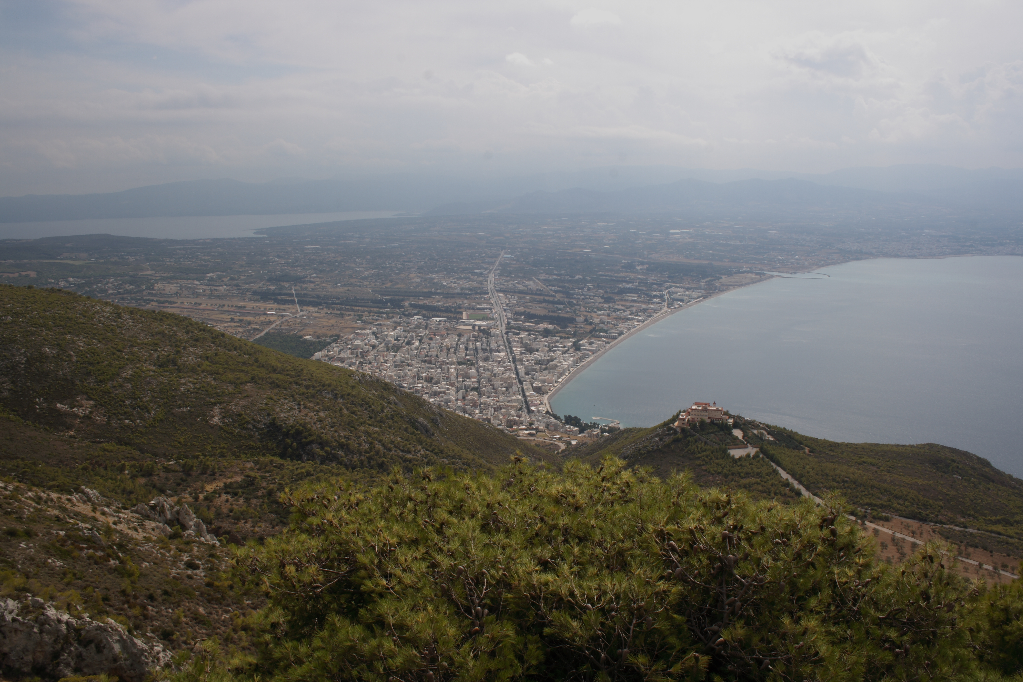 City of Loutraki.View from the monastery of st.Patapius